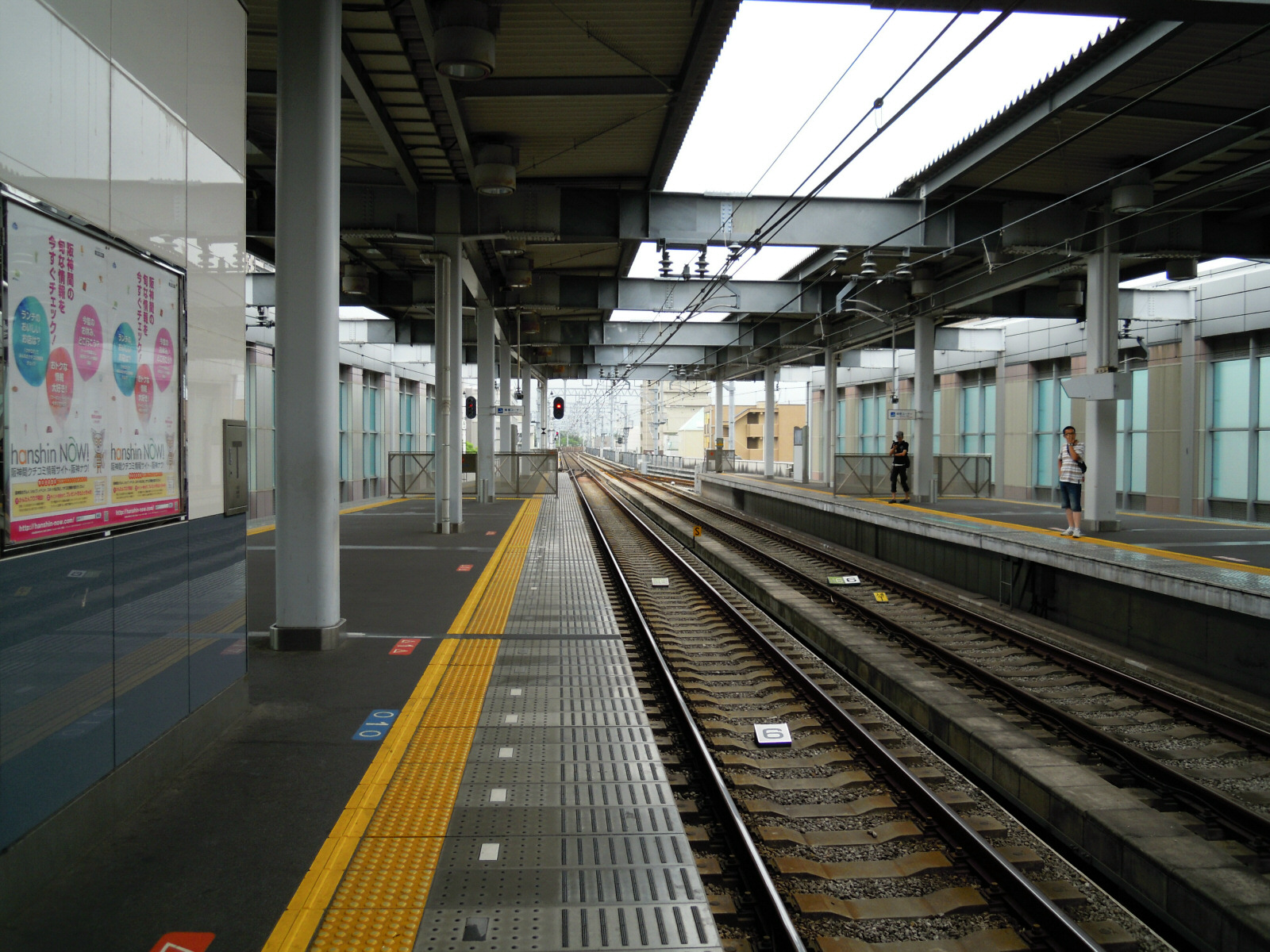 Hanshin Nishinomiya station platform